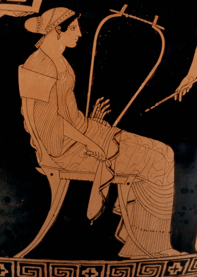 One of the prominent painters of classical Athens, the Niobid Painter (named after his most famous vase) is admired for his quiet and balanced compositions. Here, in the women's quarters of a house, three elaborately dressed women prepare for a music session. A seated woman relaxes while fingering a "barbiton" (a stringed instrument). Above her head hangs a lyre. She faces a woman holding double flutes, and a third woman lifts the lid of a box. The scene evokes the leisured and relatively educated world of affluent Athenian women. On the back, women dressed in the attire of maenads, the female followers of Dionysus, hold pine branches and a torch; these may be the same women, now preparing for their ritual roles in Dionysus' cult.